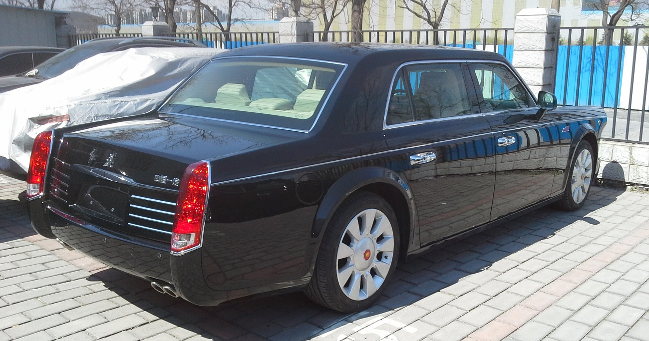 Hongqi L5 photographed in Beijing, China.